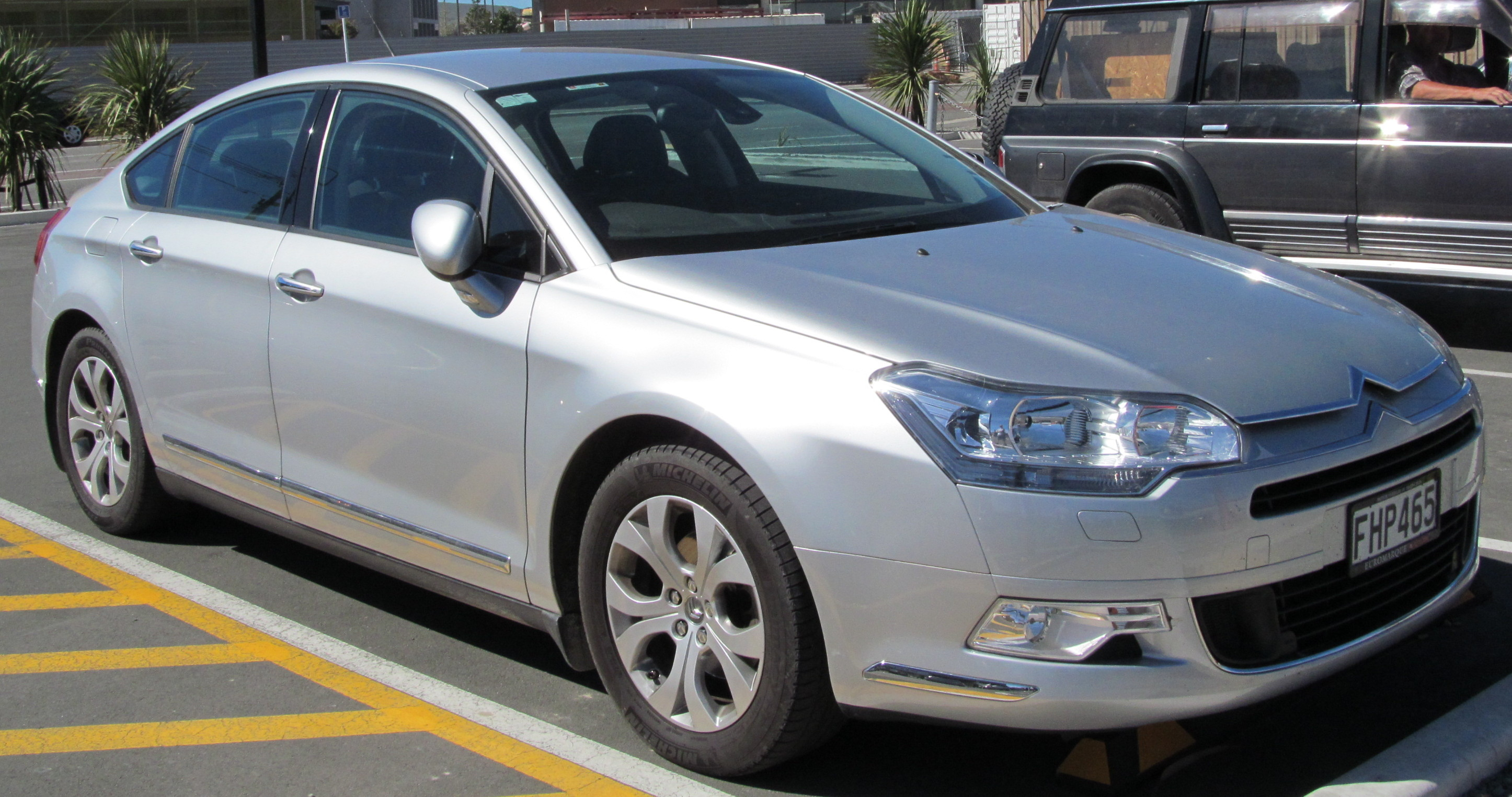 FHP465 Right, now I have uploaded a car from all three major French car manufacturers today! I quite like these, and one of our own - Ed (MetropolisC5) - has one. These have only sold in small numbers here - far less than the first C5 - which is a shame, as they are nice cars.